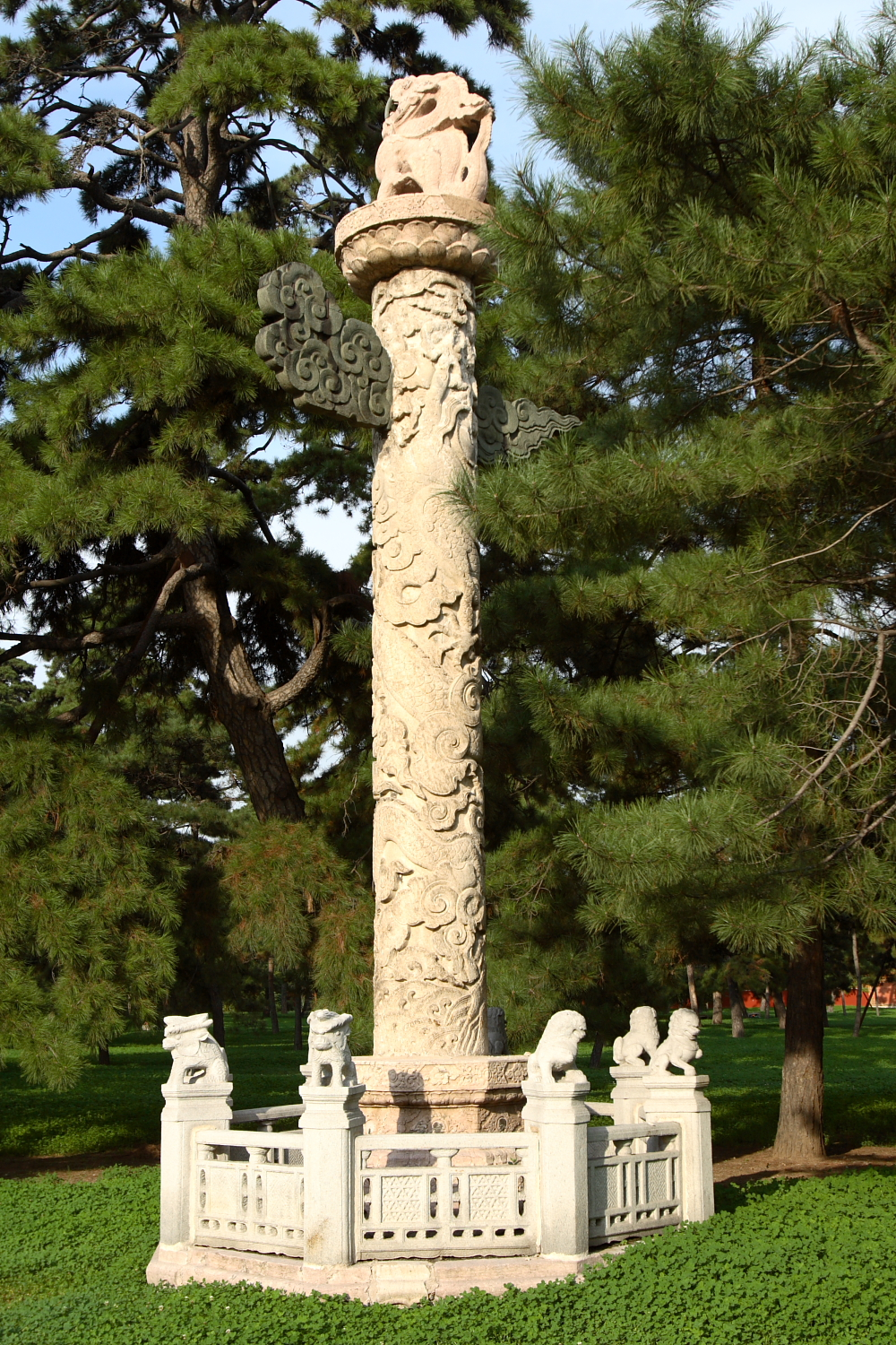 Huabiao, at Zhaoling, Qing, Shenyang